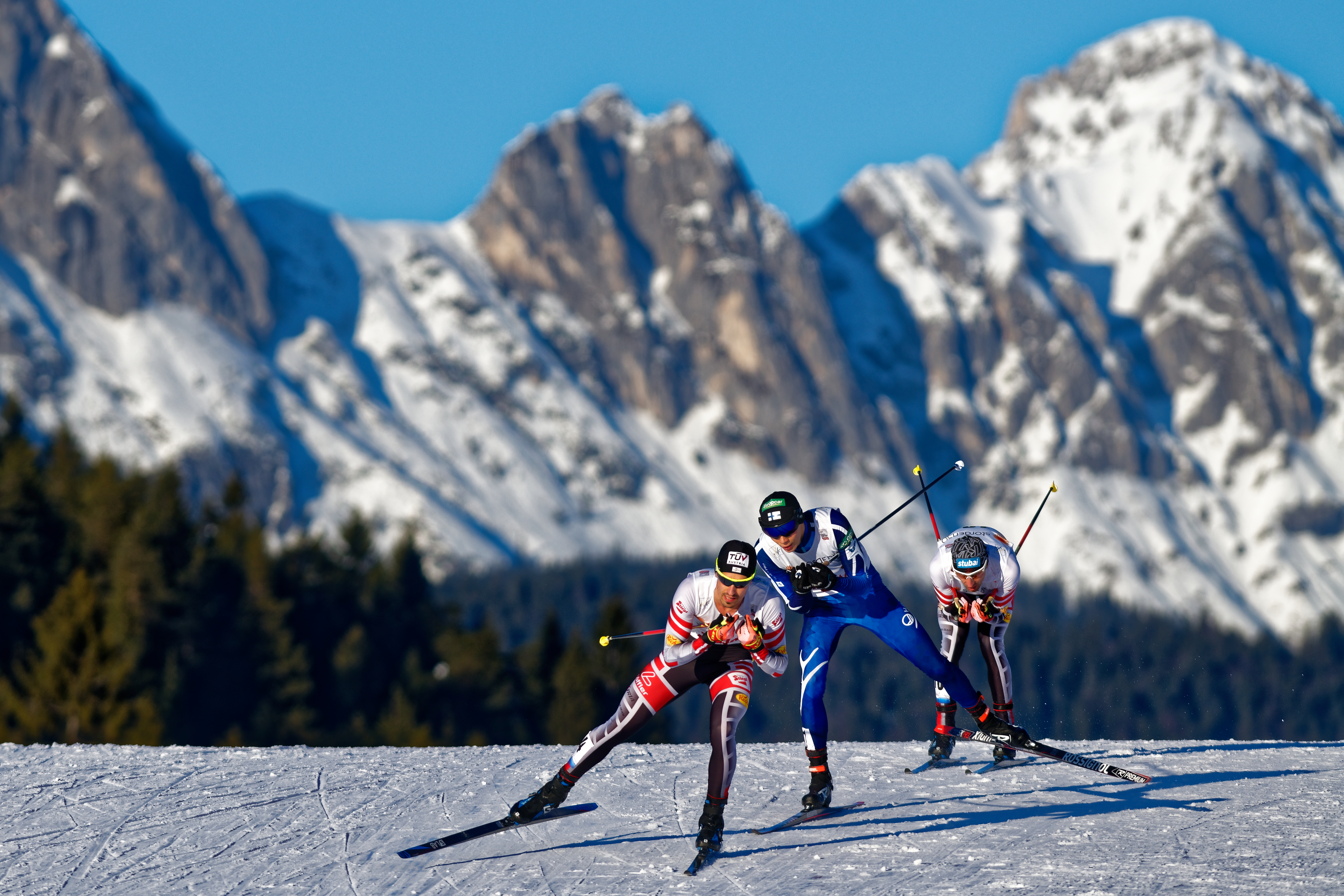 10km Gundersrun 2018/01/27 in Seefeld (AUT), Picture shows Lukas Klapfer (AUT), Eero Hirvonen (FIN), Willy Denifl (AUT)